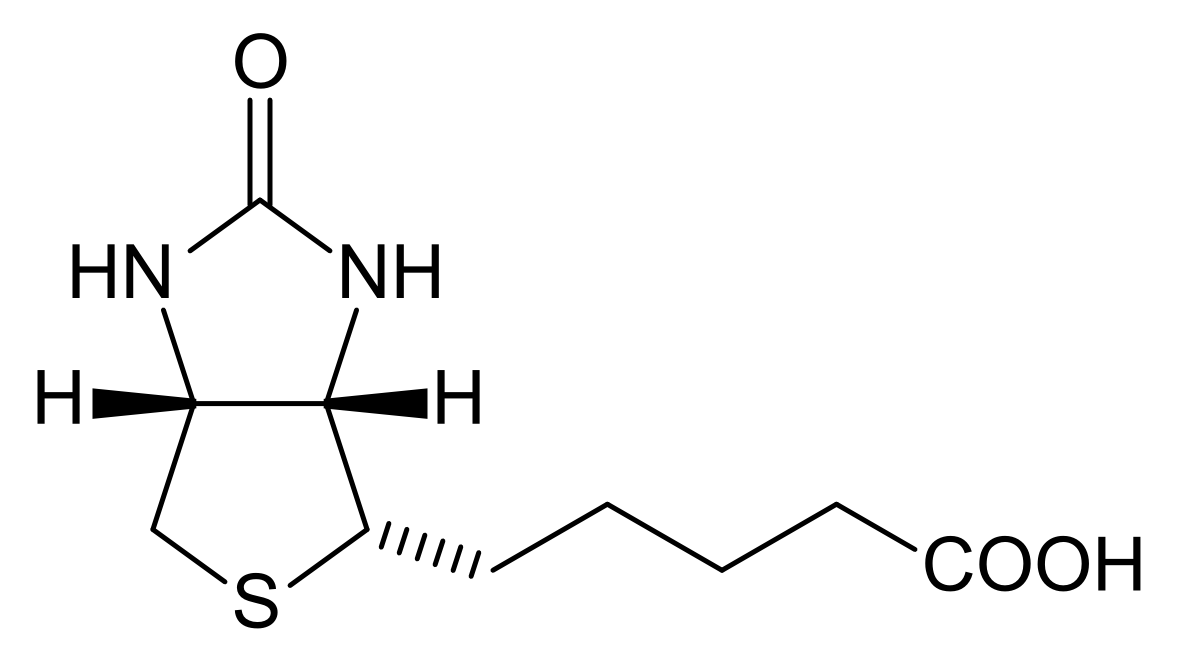 Chemical structure of biotin (vitamin H/B7). The original image was uploaded as File:Biotin structure.svg. This file is PNG version.